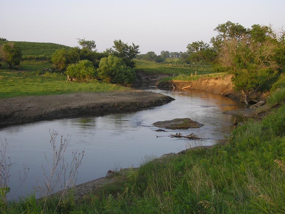 Personally-taken photograph of the Maple River south of Chaffee, North Dakota. Photograph taken by Brandon Jackson of Leonard, North Dakota.